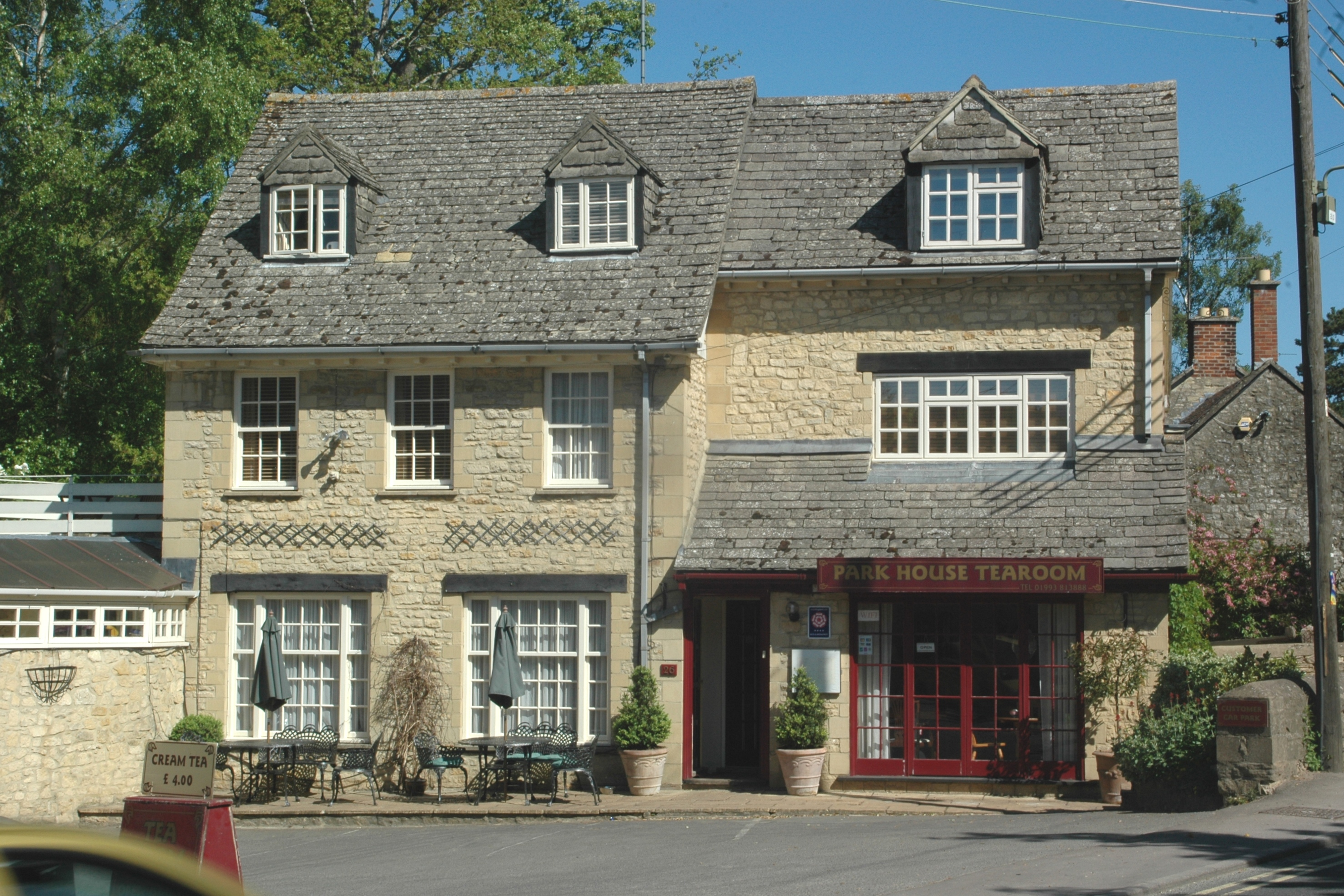 Bladon, Oxfordshire: tea room on the main road next to Bladon Methodist church.